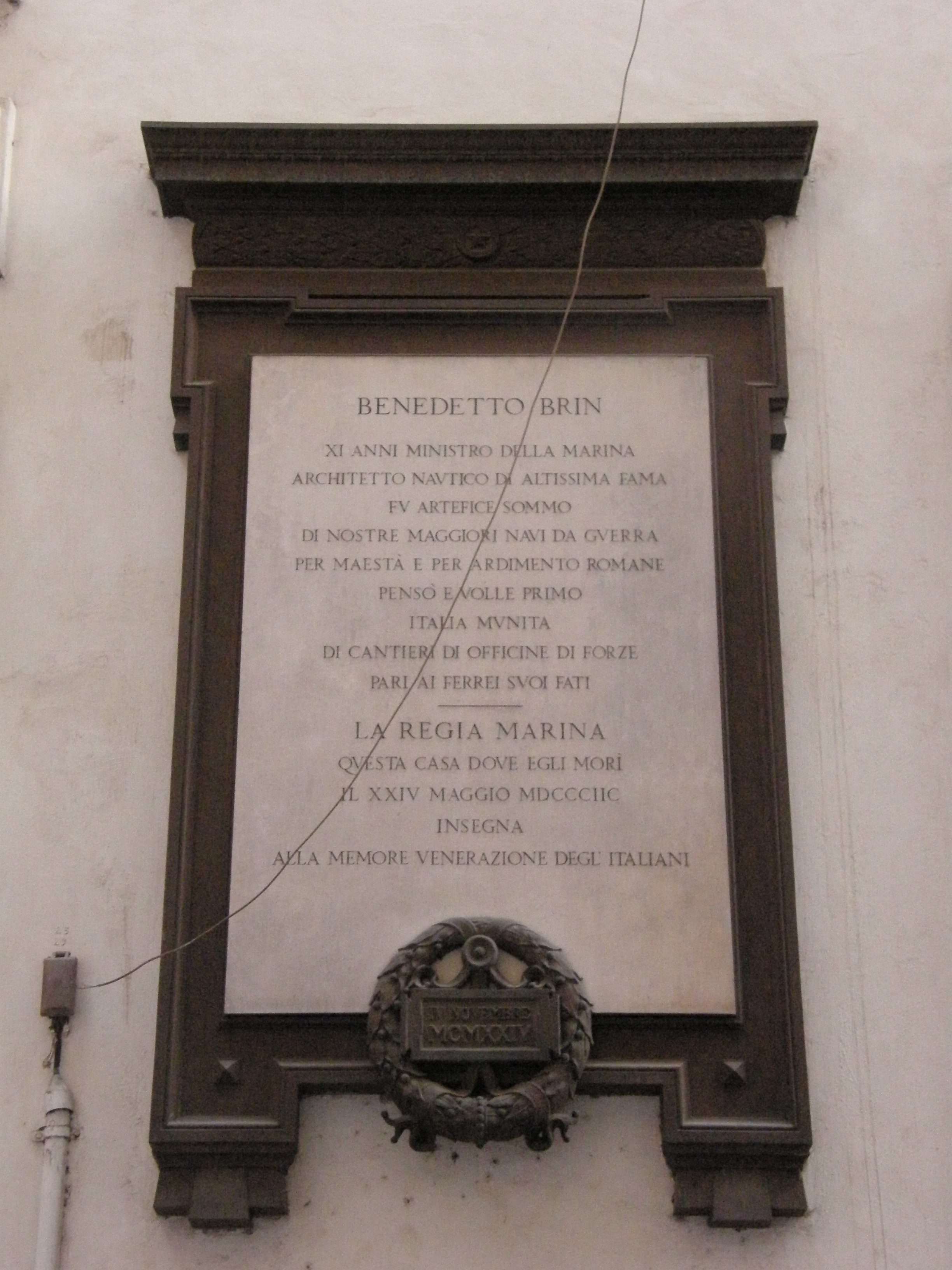 Rome, Italy - Via Santi Apostoli - Commemorative plaque devoted to Benedetto Brin